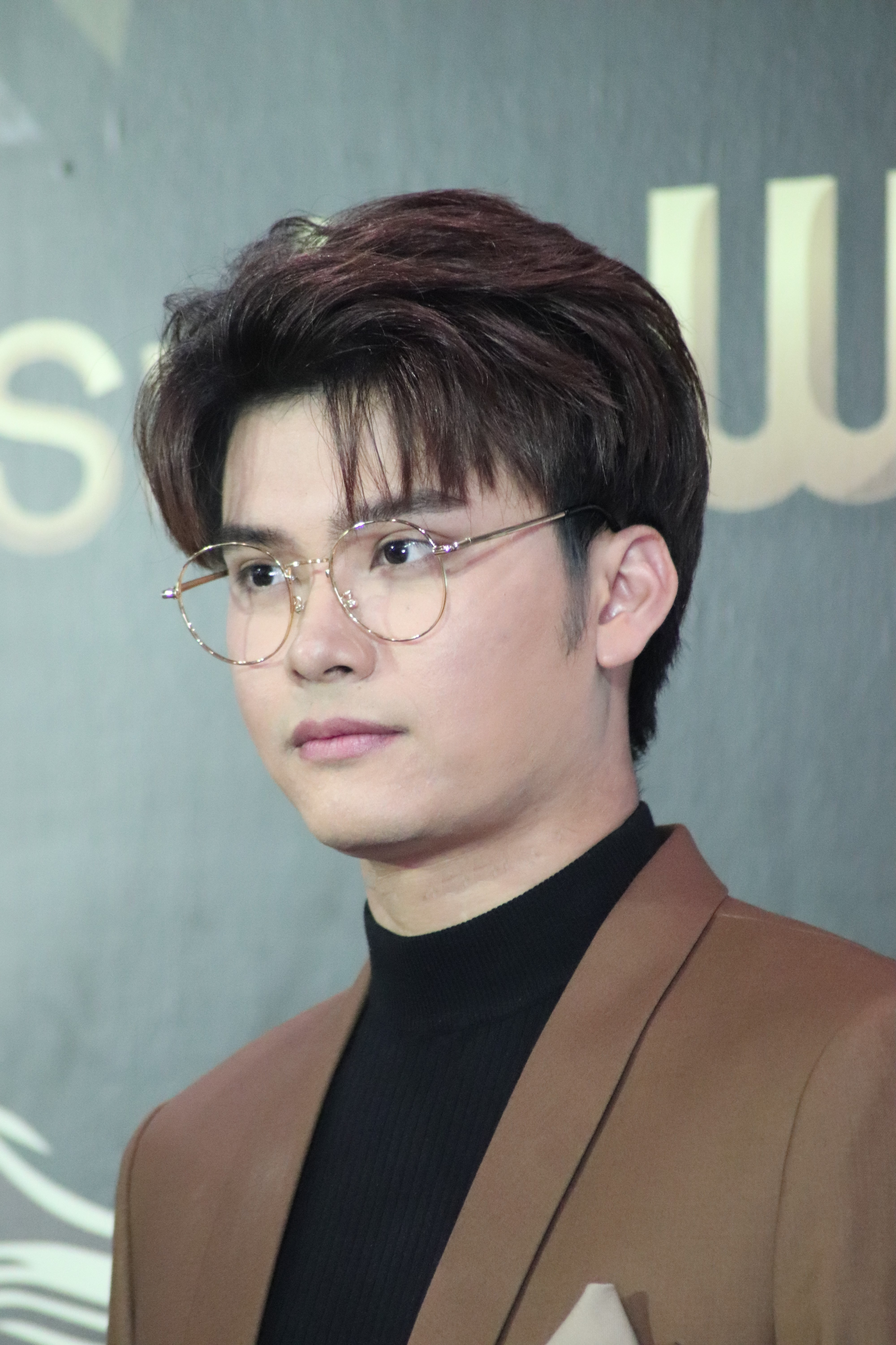 Nont Tanont at Event